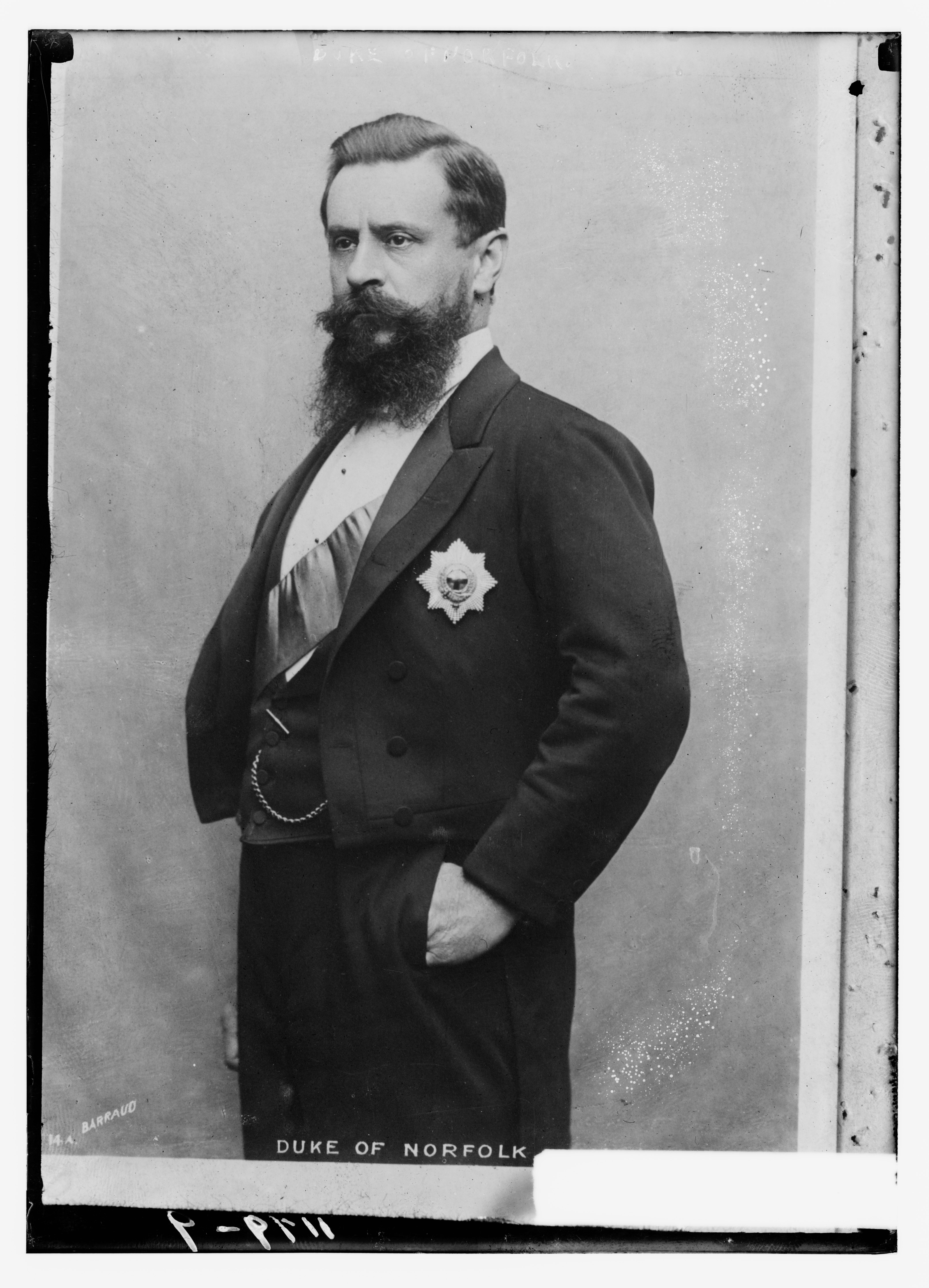 Title: Duke of Norfolk Abstract/medium: 1 negative : glass ; 5 x 7 in. or smaller.